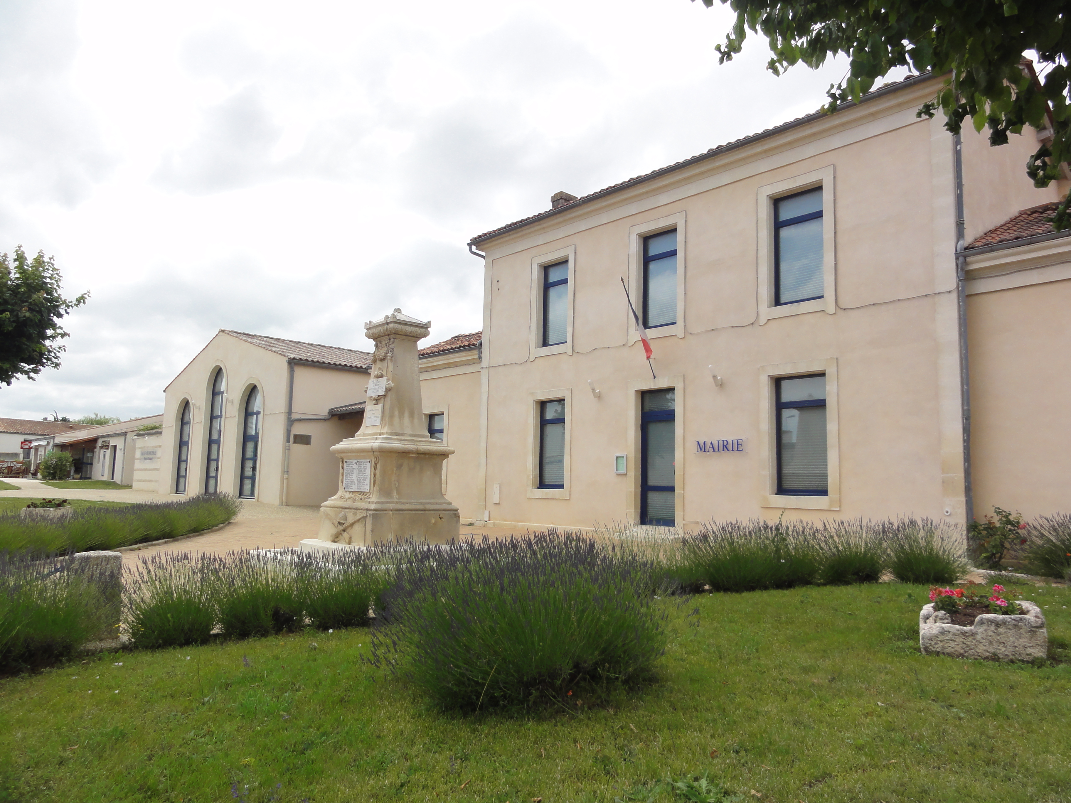 Mazeray (Charente-Maritime) mairie, monument aux morts, salle polyvalente